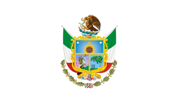 Flag of the State of Querétaro, Mexico.